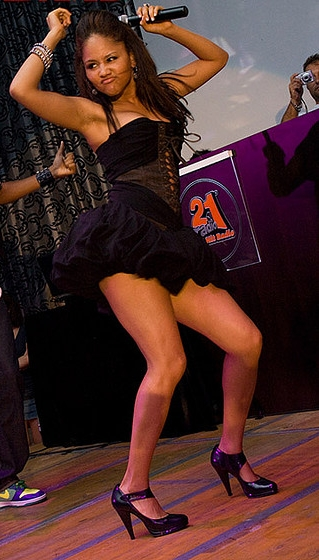 Kat DeLuna live in 2008.